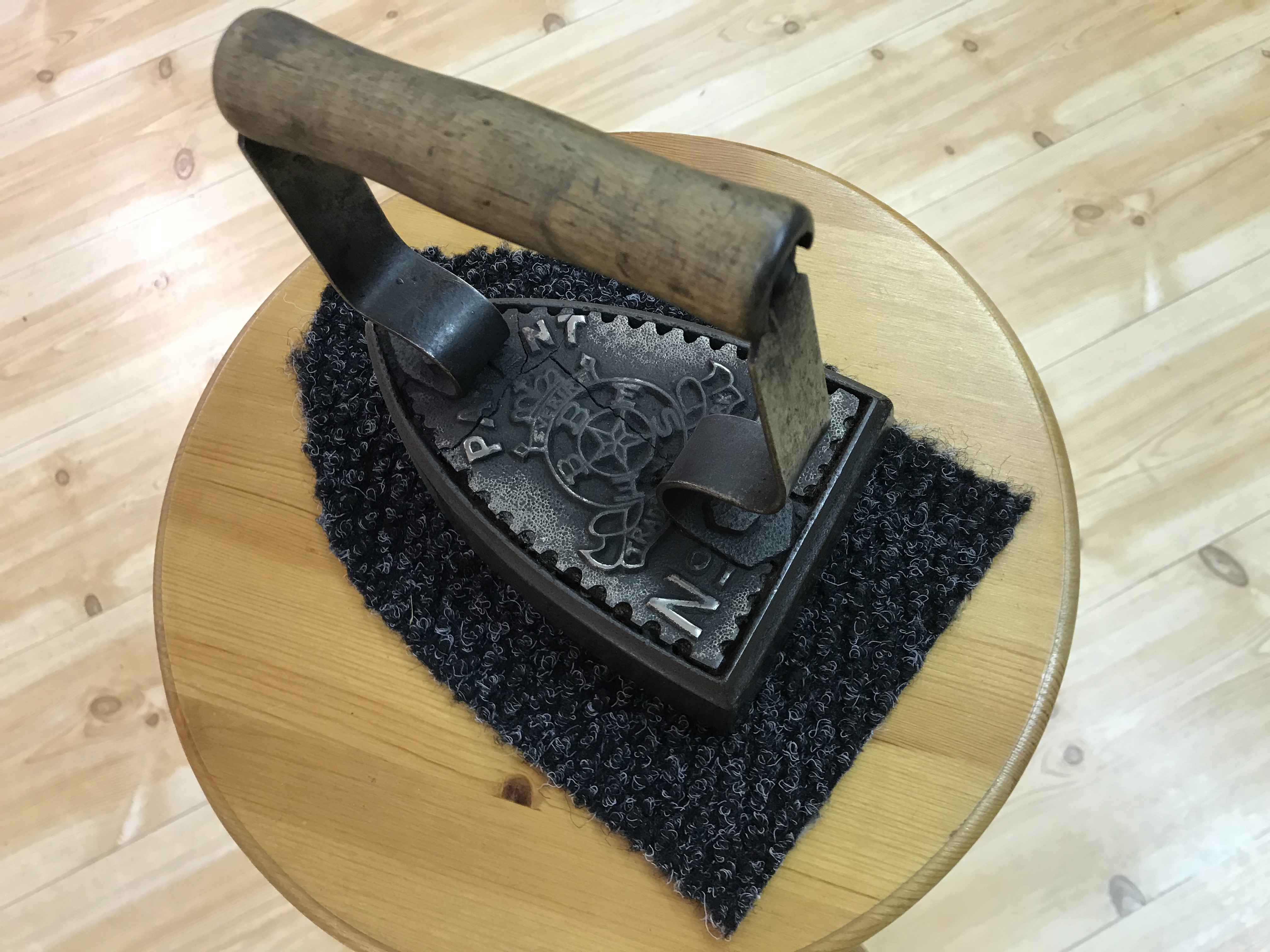 Strykjärnsmuseum, Iron museum, in Malmköping, Sweden, August 2, 2019